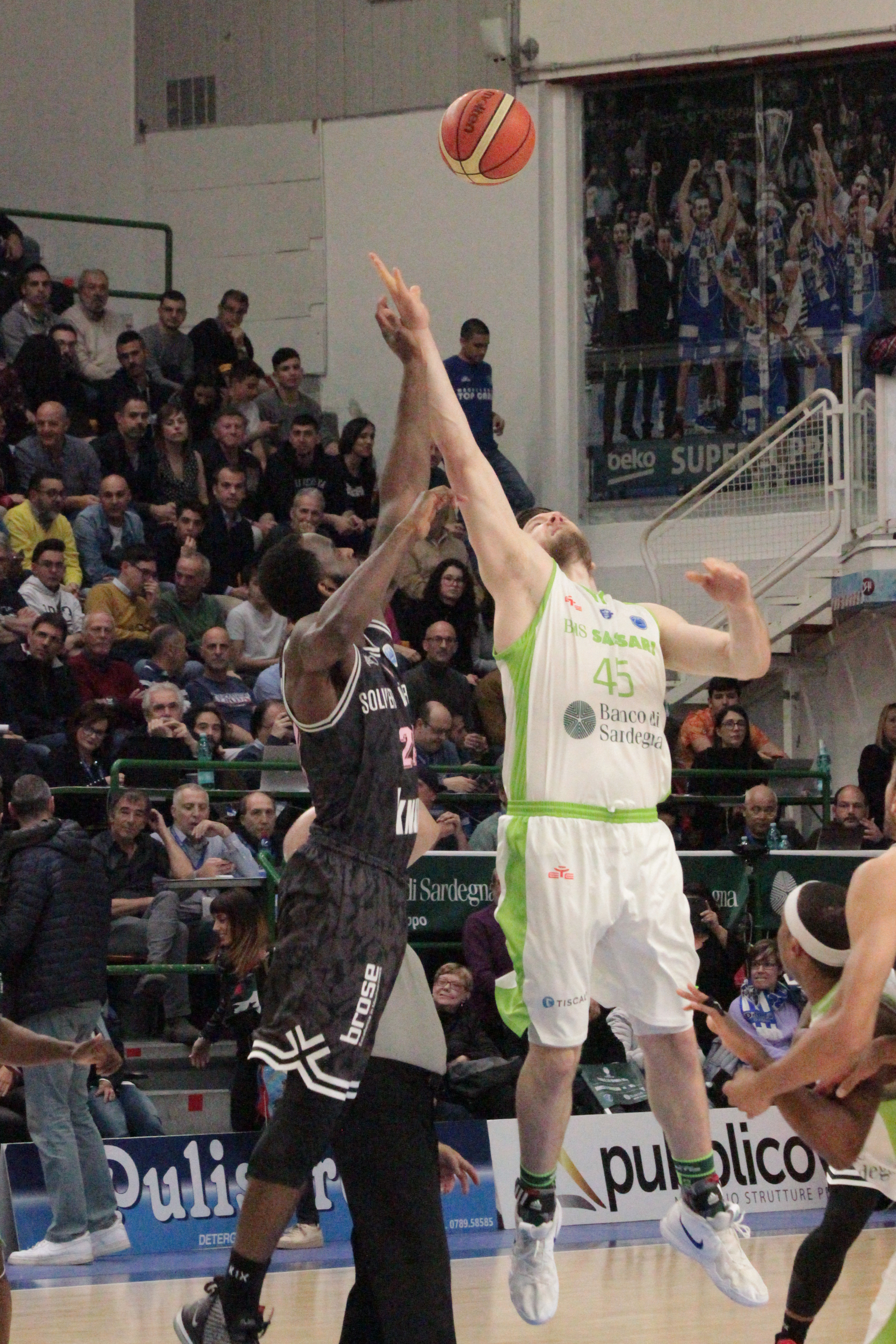 Jack Cooley and Mike Morrison starting the finals of the FIBA Europe Cup 2018-2019